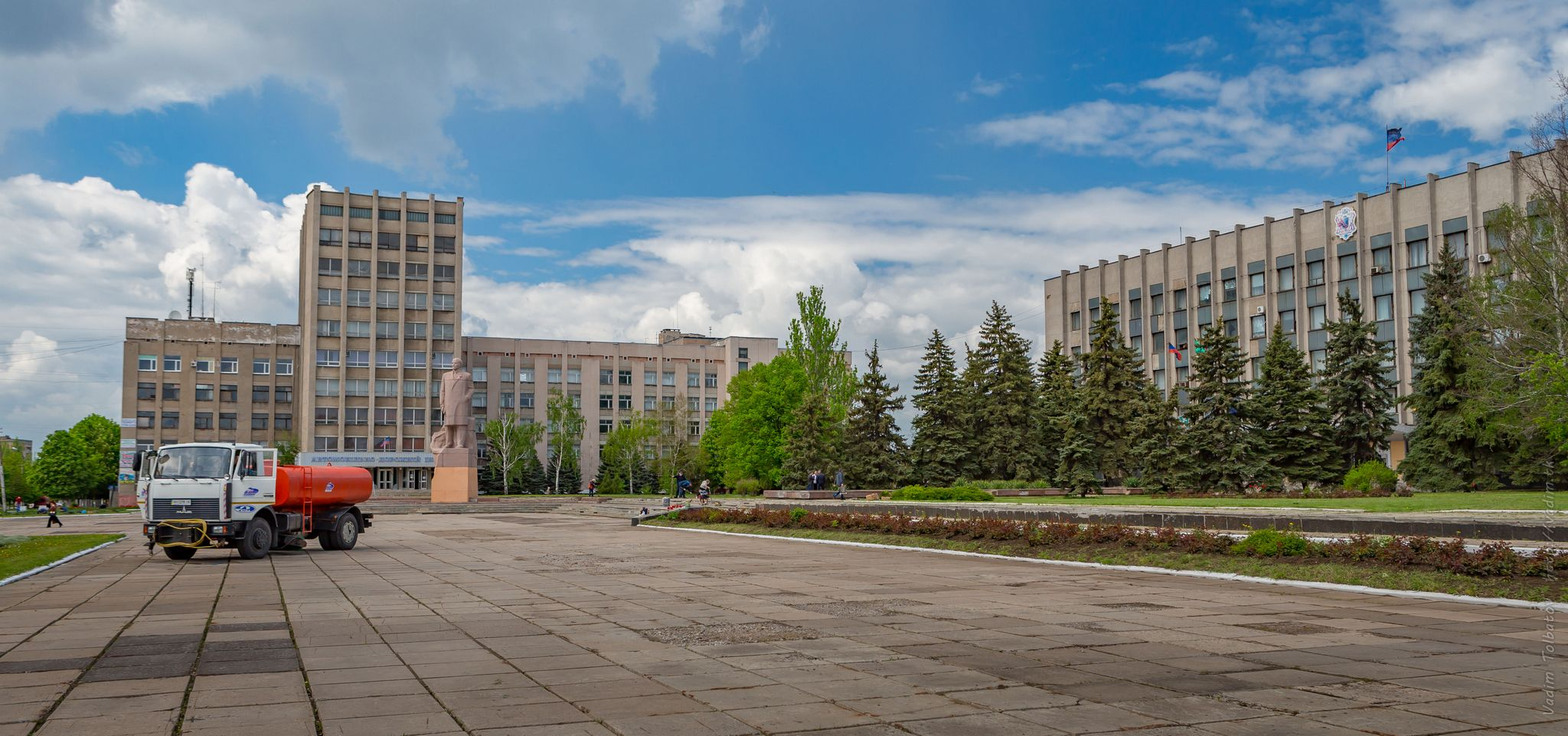 Lenin square, Gorlovka, the DPR